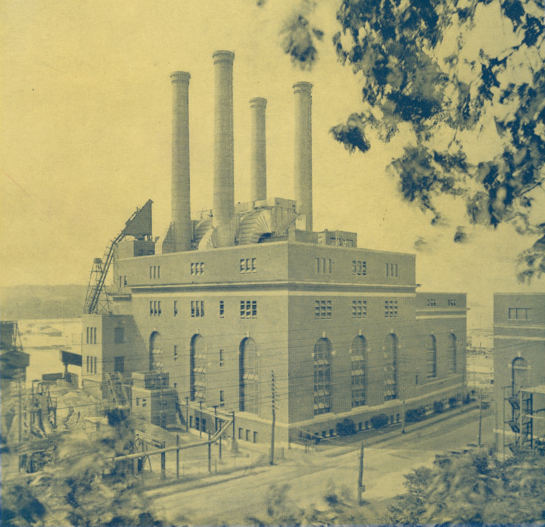 Glenwood Generating Station in Glenwood Landing, New York in 1936. Original caption: "The Key Electric Generating Plant of the Long Island System, Located at Glenwood, on the Easterly Shore of Hempstead Harbor"